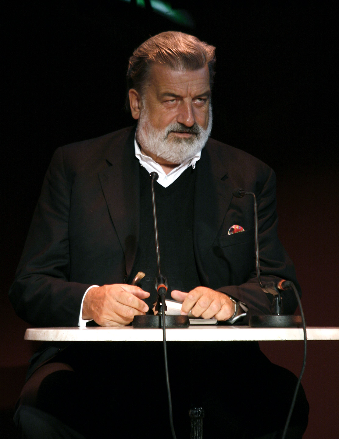 Austrian writer, actor and artistic director Gerhard Tötschinger at a reading in Vienna.